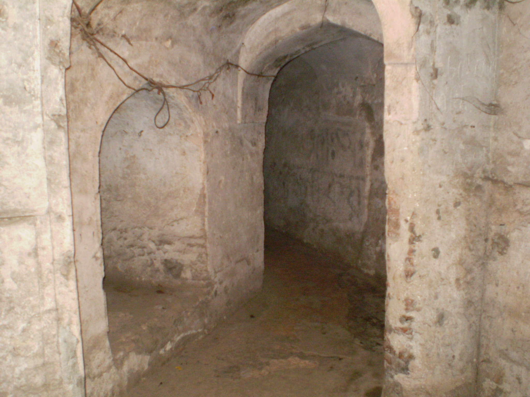 Picture of Boro Katra at Dhaka